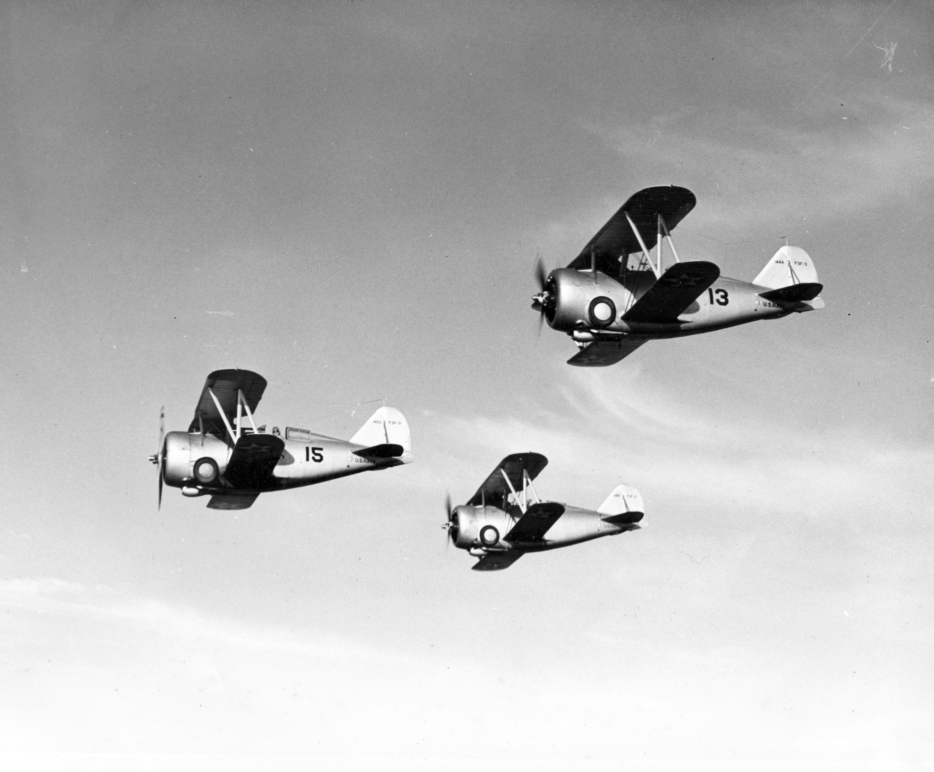 Three Grumman F3F-3 fighters used for flight training near the Naval Air Station Corpus Christi, Texas (USA), in 1942.